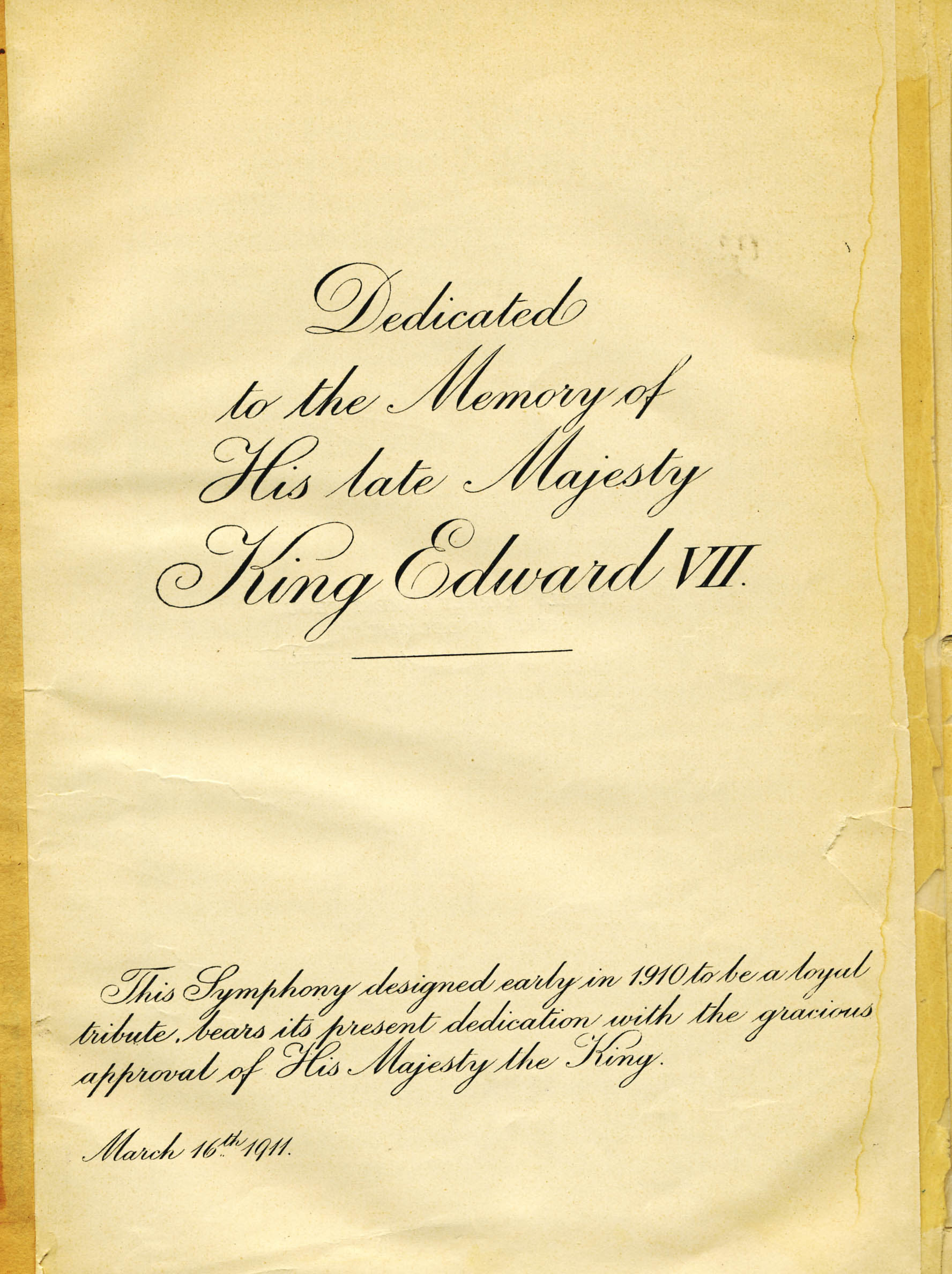 Dedication page to Edward Elgar's Symphony No. 2 in E-flat, Op. 63